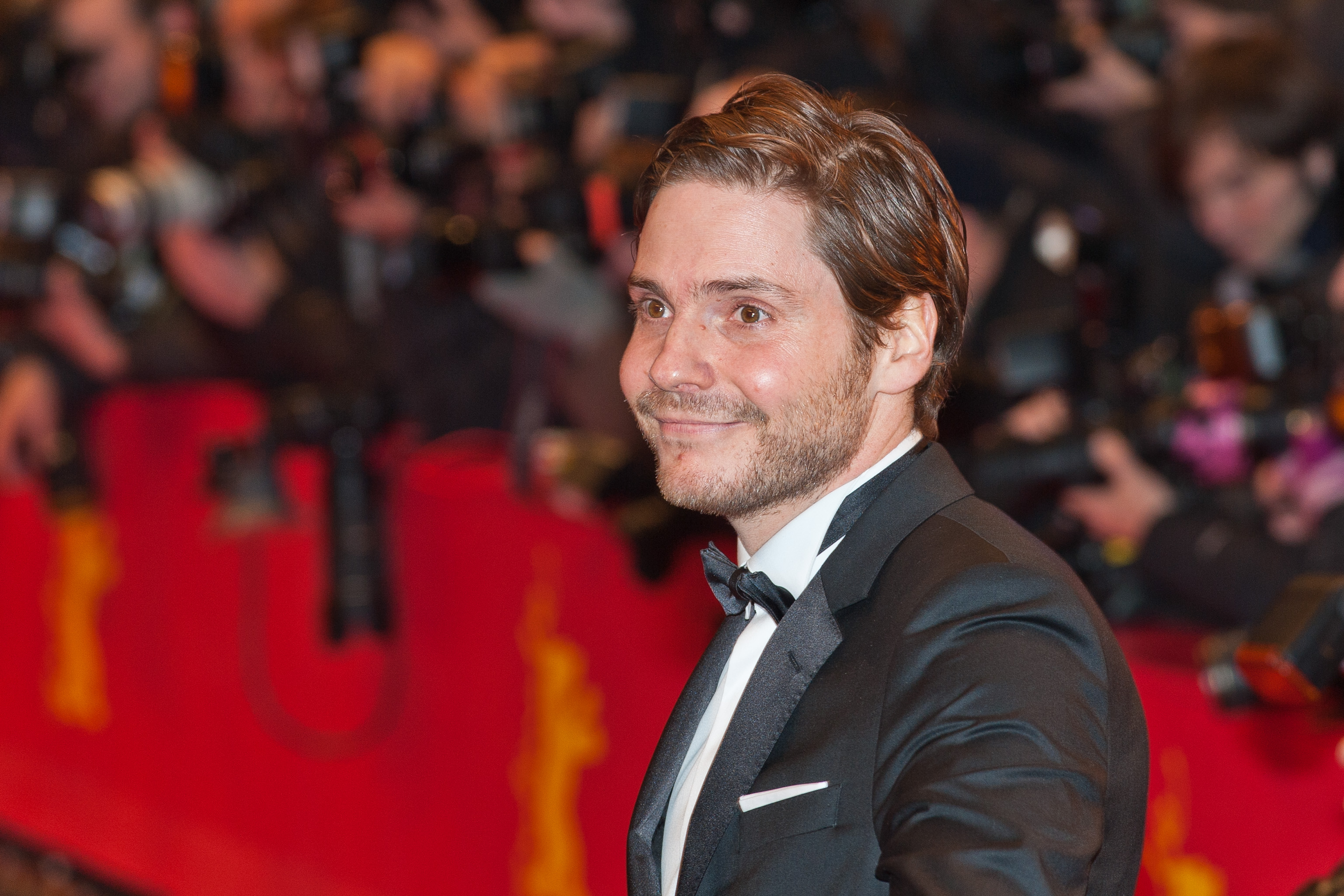 Member of the jury, German actor Daniel Brühl Opening of the 65th Berlin International Film Festival at the Berlinale Palast